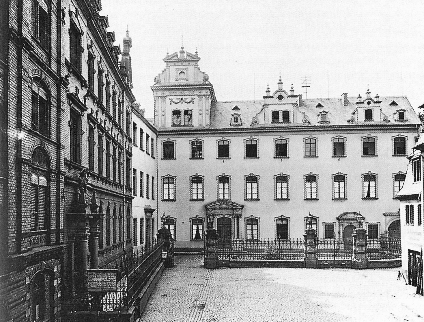 Old Hospital in Koblenz